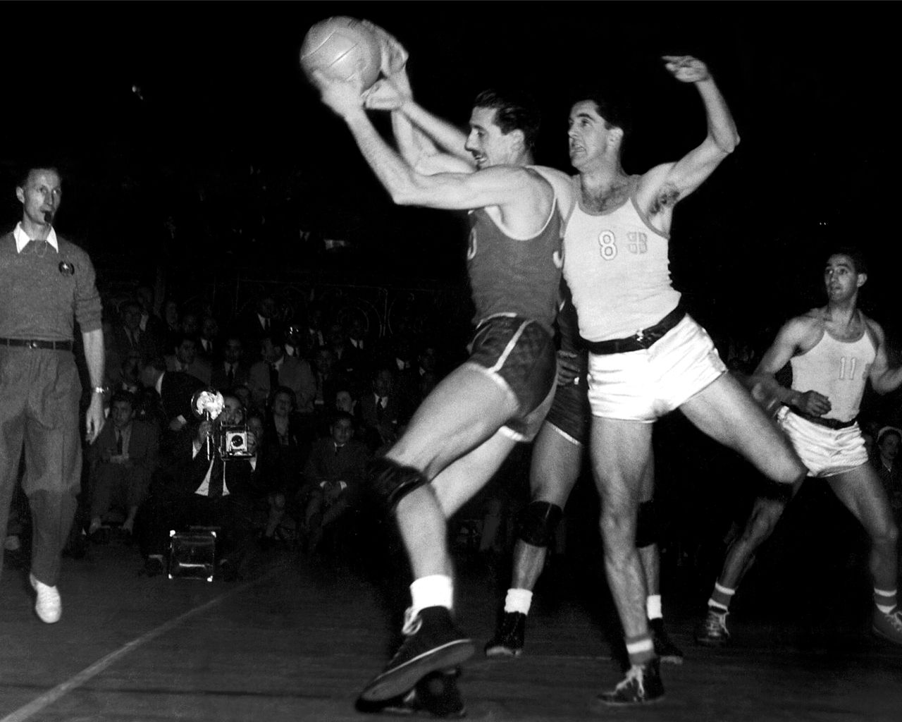 Argentine player Oscar Furlong (#8) fights for control of the ball at the 1950 FIBA World Championship.